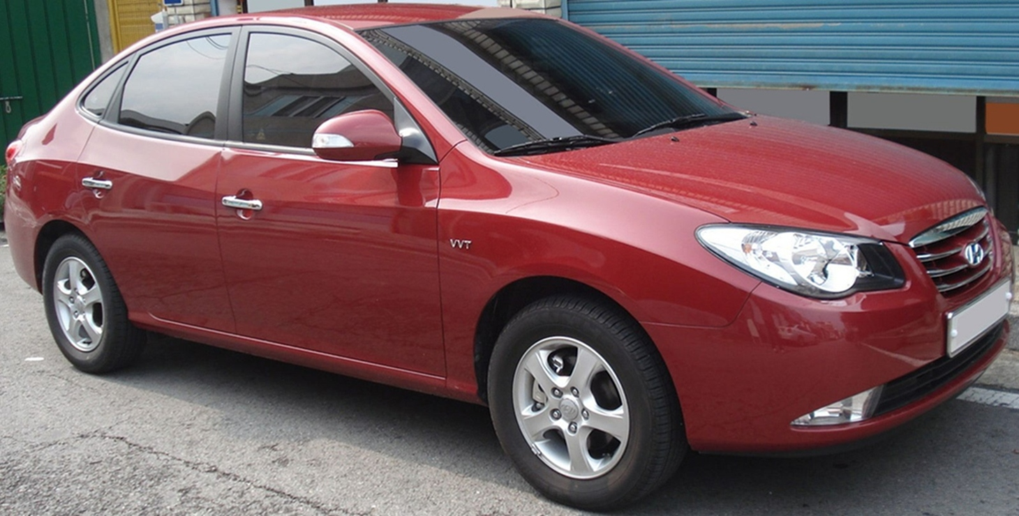 Hyundai Avante